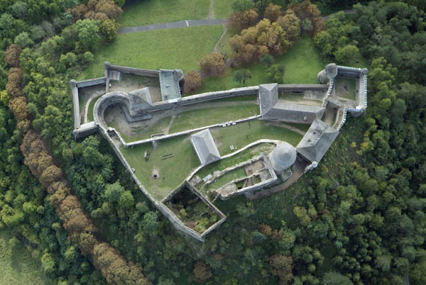 Stará Ľubovňa, Slovakia, castle, aerial photography